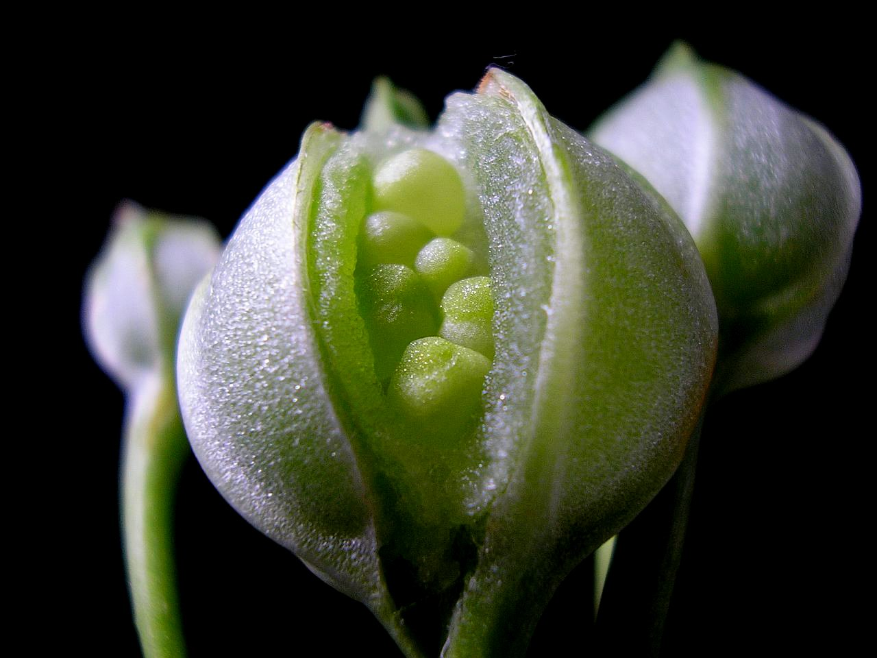 An alstroemeria (Peruvian Lily) pod opening.